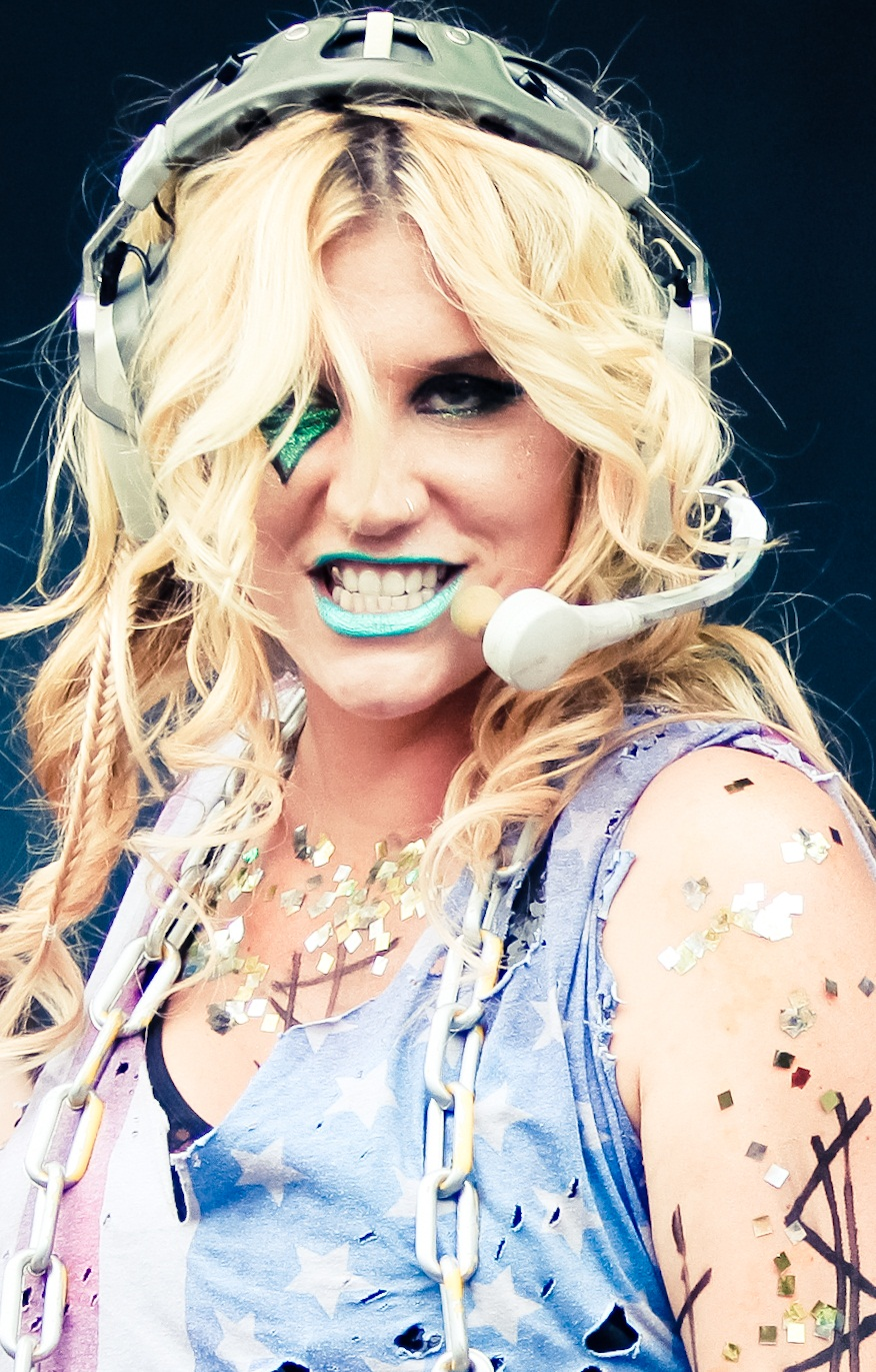 Kesha performing in 2011